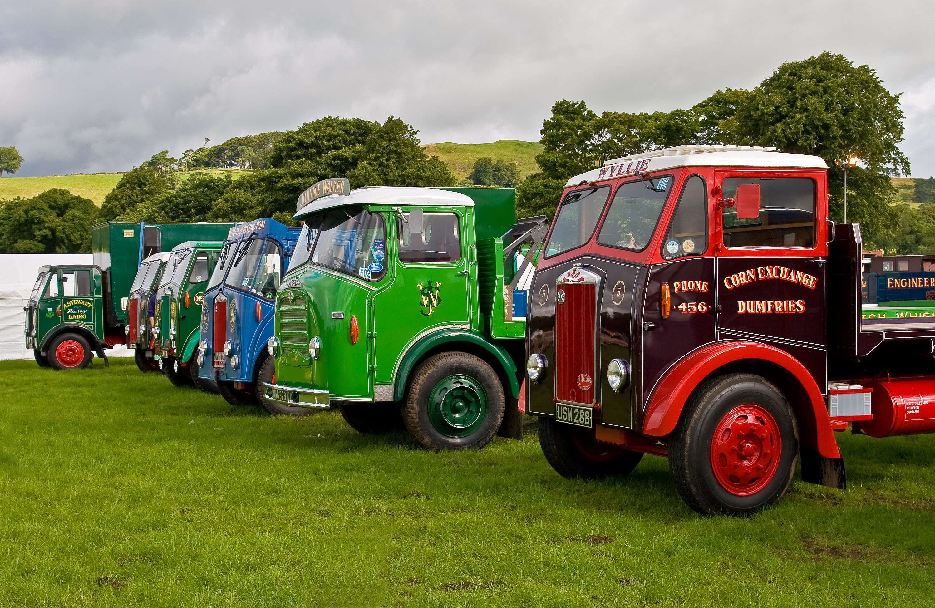 Photograph of a group of fine old Albion Commercial Vehicles at the Biggar Vintage Rally.